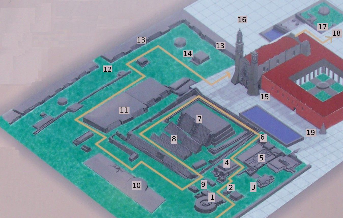 Photograph from the ancient mexican place Mexico-Tlatelolco. Now an archeological site.